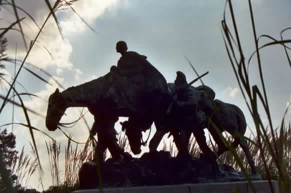 photo by Einar Einarsson Kvaran Alexander Phimister Proctor now linking to Equestrian sculpture